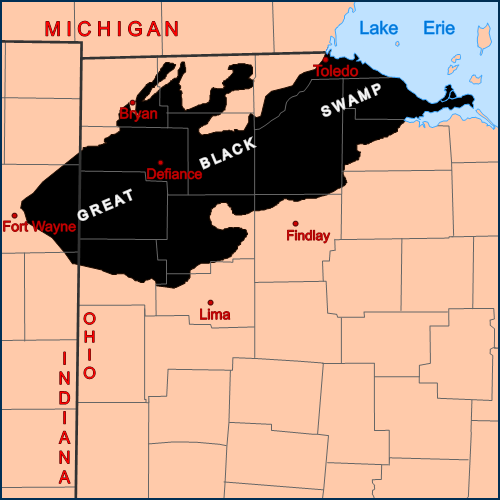 Map showing the area of NW Ohio and NE Indiana once covered by the Great Black Swamp.